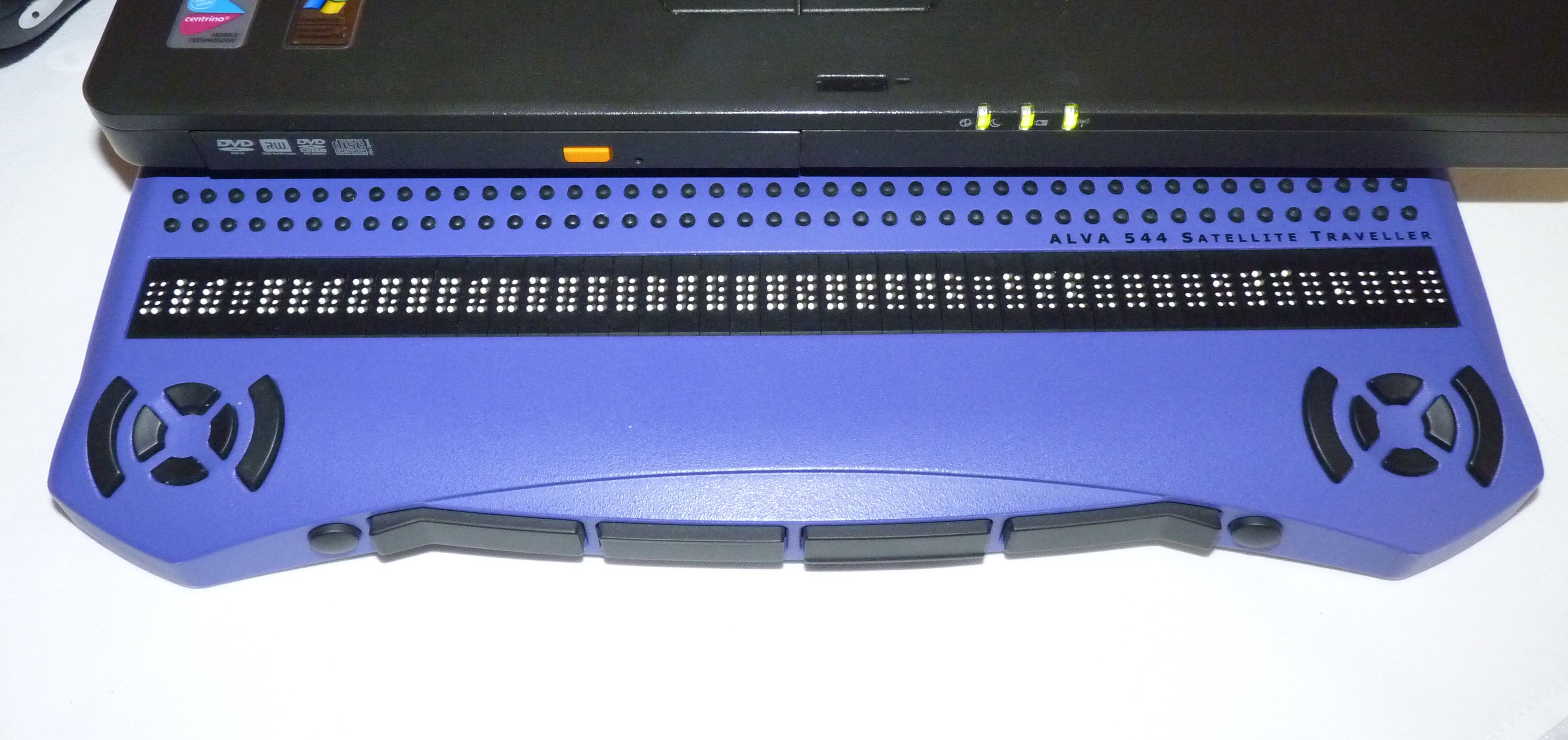 Braille laptop. Universal Learning Design Conference, Brno, Czech Republic